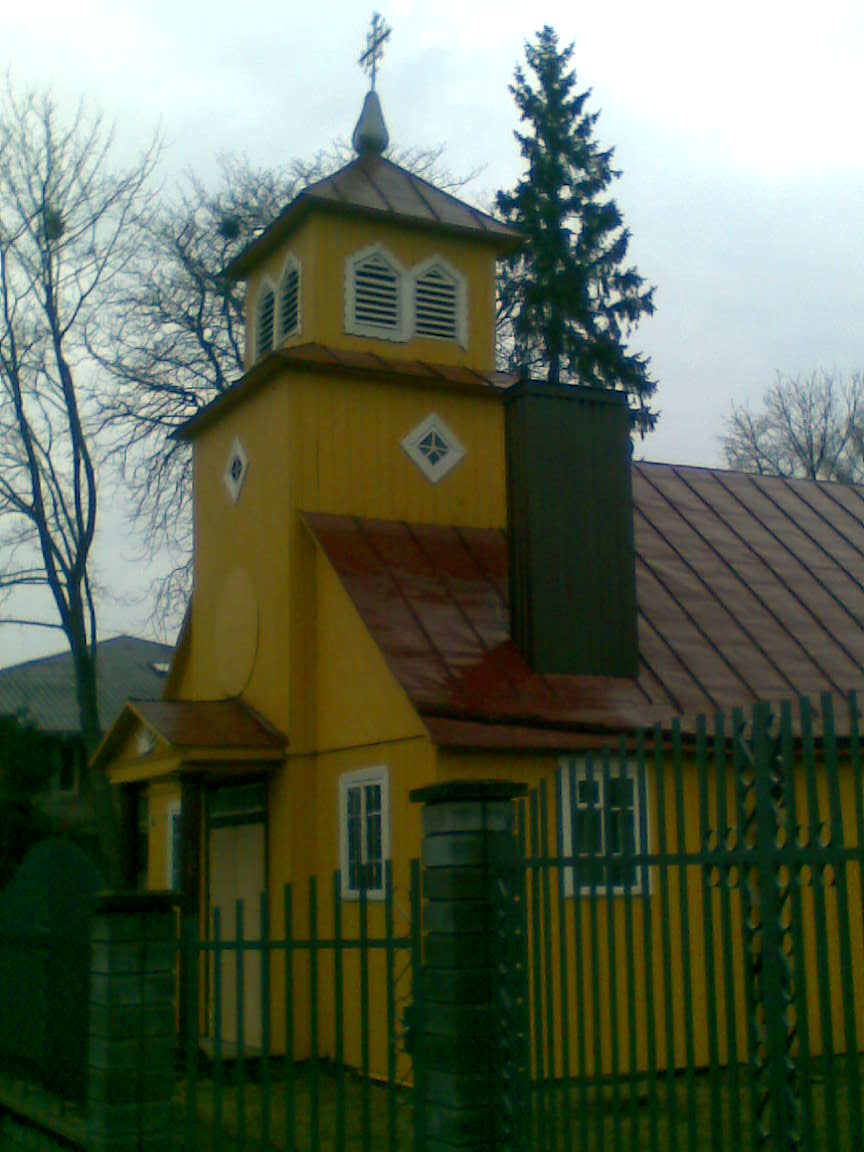 Aleksotas wooden church.